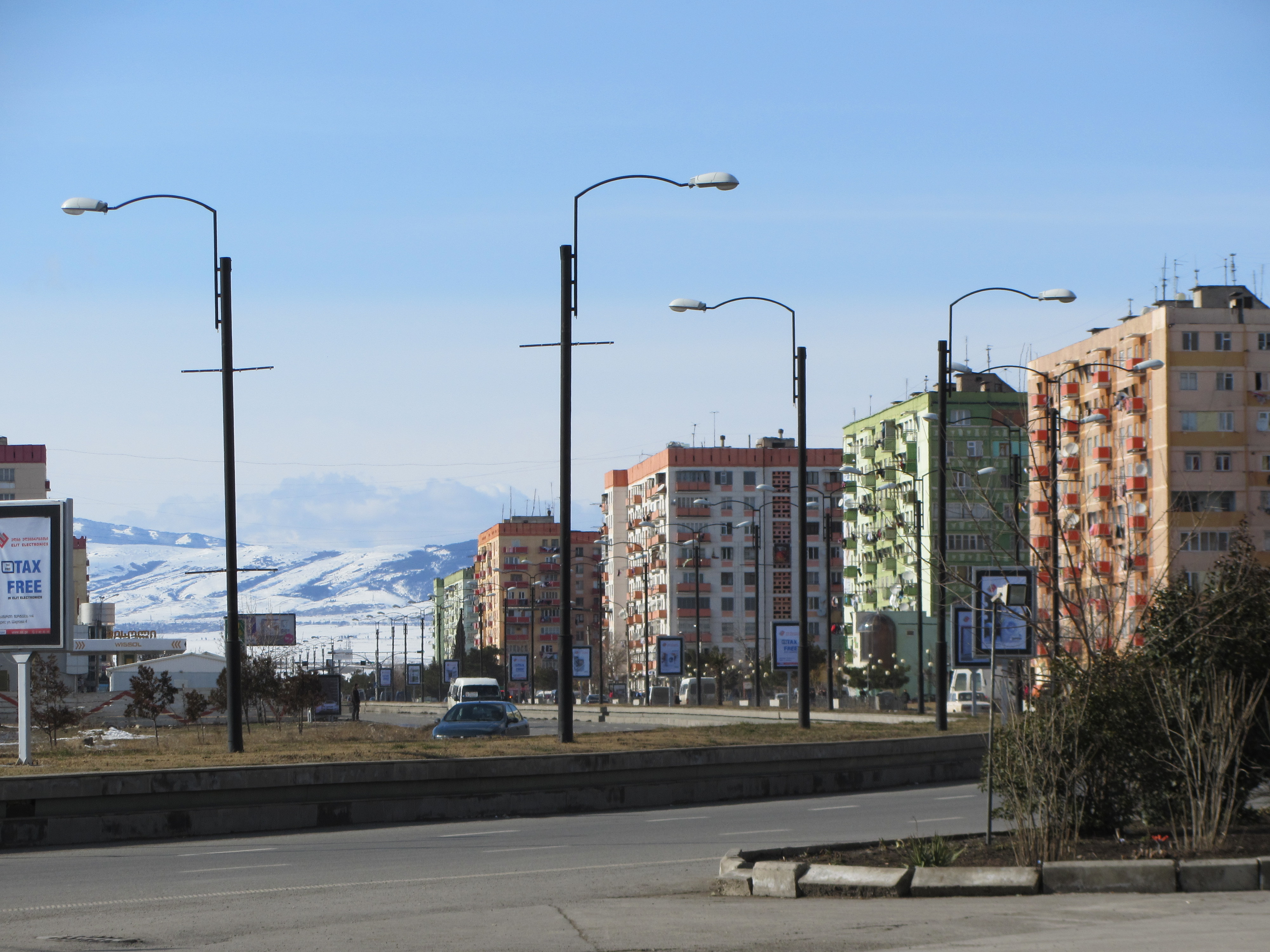 ქალაქის ხედი. ჟიული შარტავას სახელობის გამზირი.